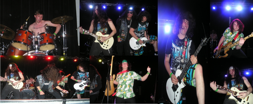 Collage of live photos i took of the British Heavy Metal band Methodemic